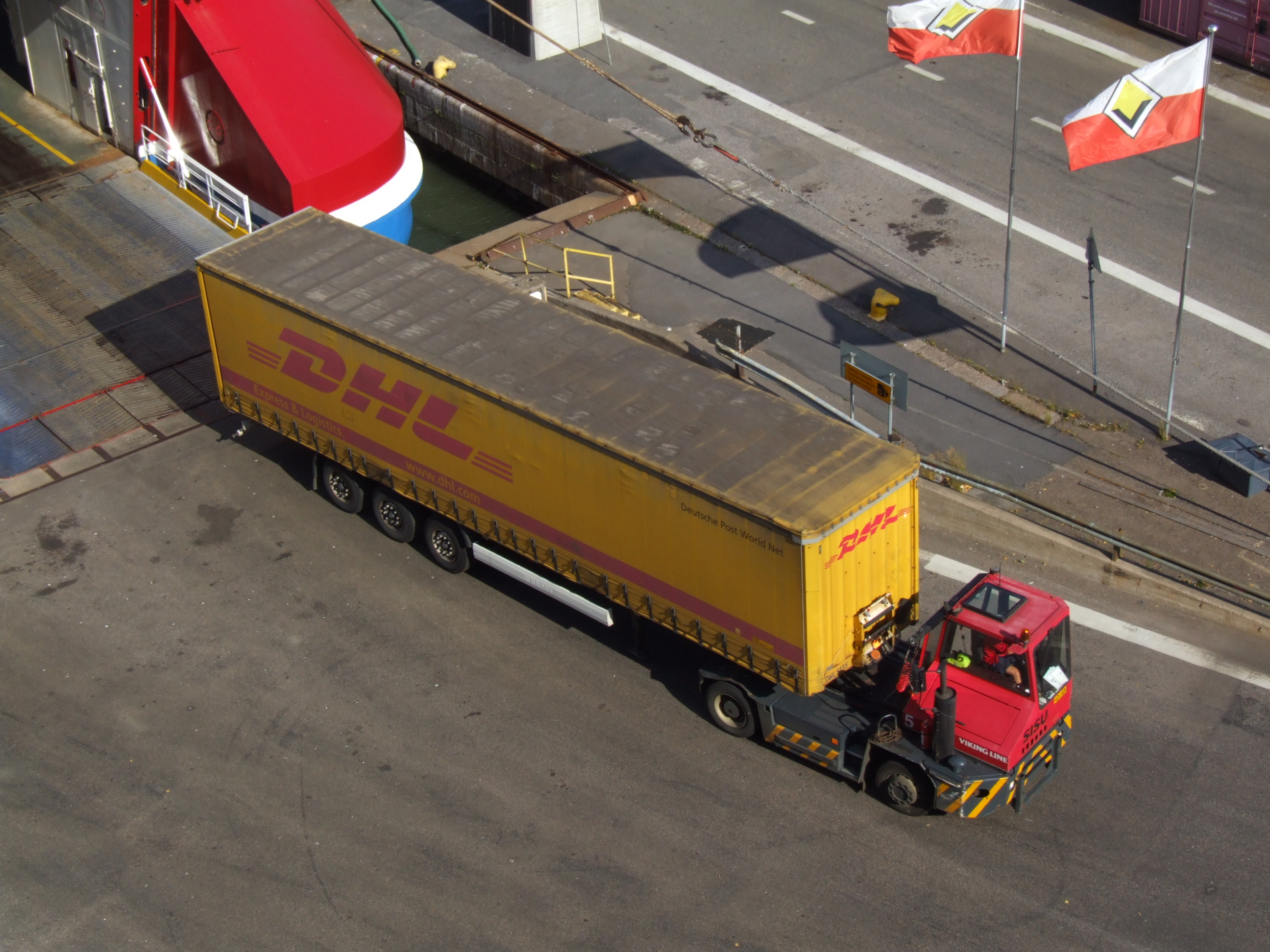 DHL semi-trailer – unloaded from ferry (Helsinki)